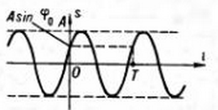 Harmonic variation of the type of variation